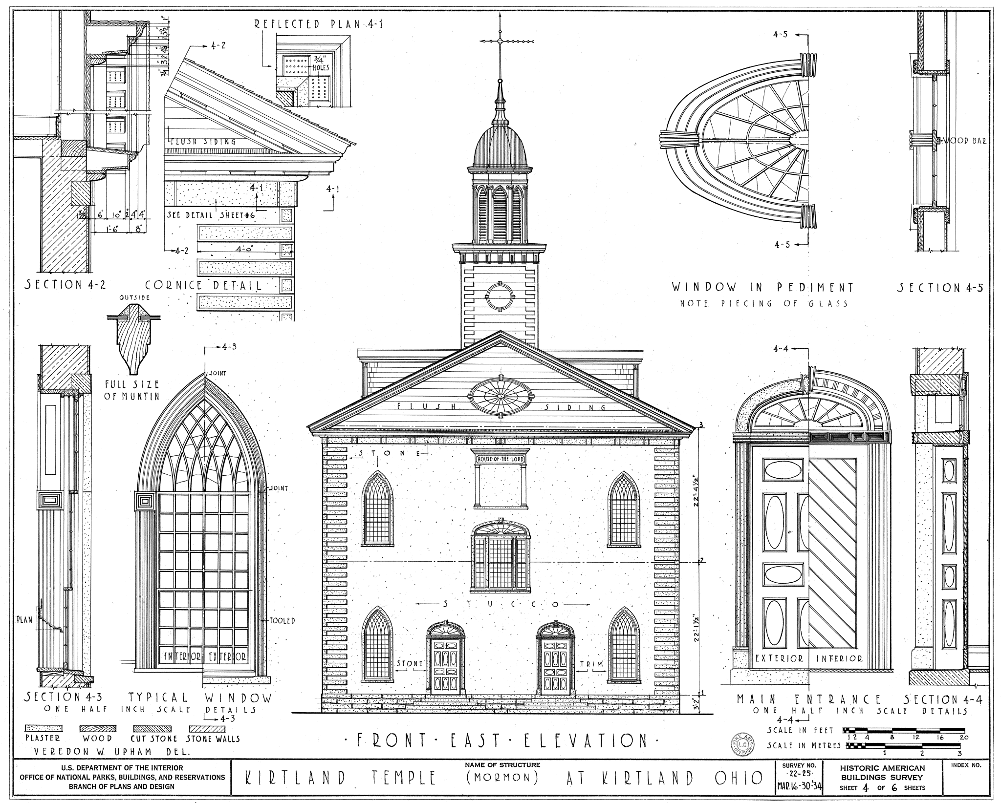 Architectural sketch of the Kirtland Temple, Kirtland, Ohio, USA. A National Historic Landmark. The Temple was build from 1833-1836 by the Church of Jesus Christ Latter Day Saints under their prophet Joseph Smith, jr. It is today owned and used by the Community of Christ